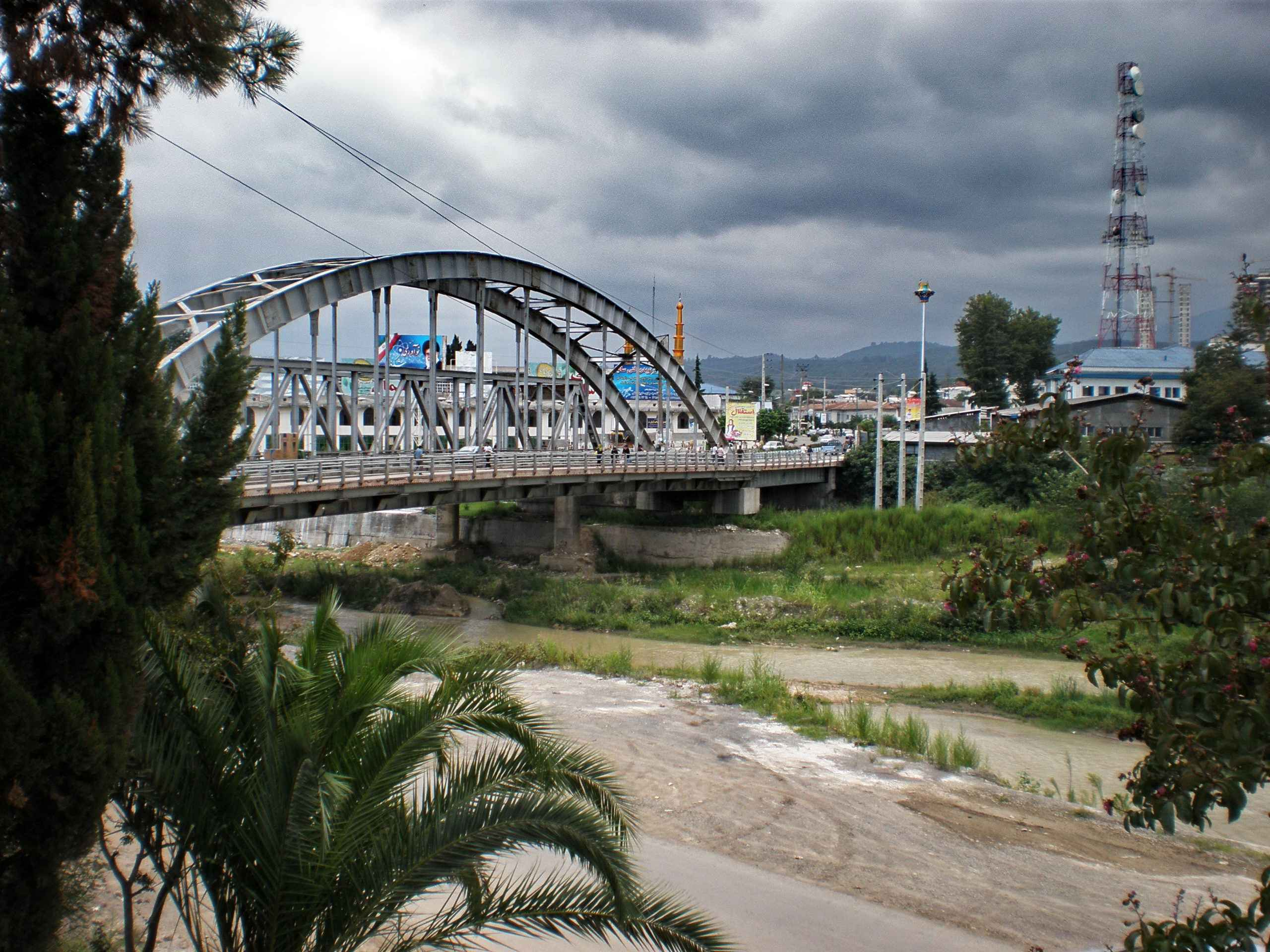 A bridge on a river in the middle of Chalus, Mazandaran, Iran.